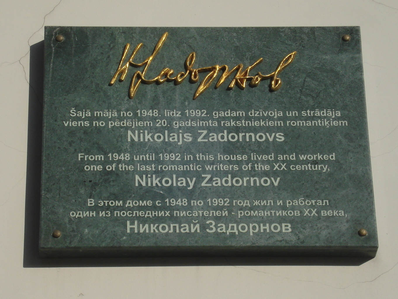 Plaque in memory of Nikolay Zadornov (1909—1992), Russian writer, in Riga (Latvia), Rupniecības str.